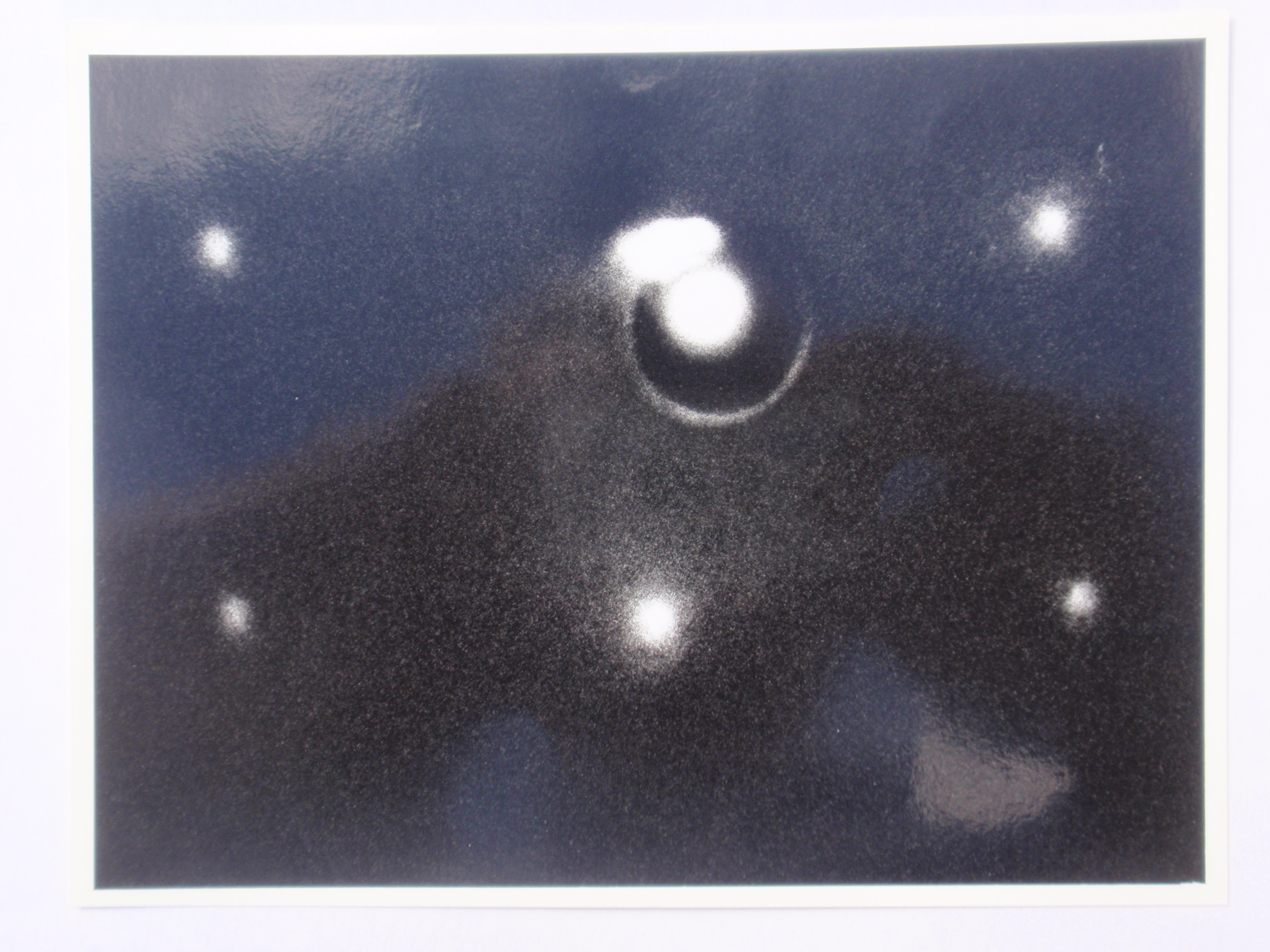 Photo of a LEED pattern of a clean Platinum/Rhodium single crystal (100) (Miller index) taken in high vacuum.